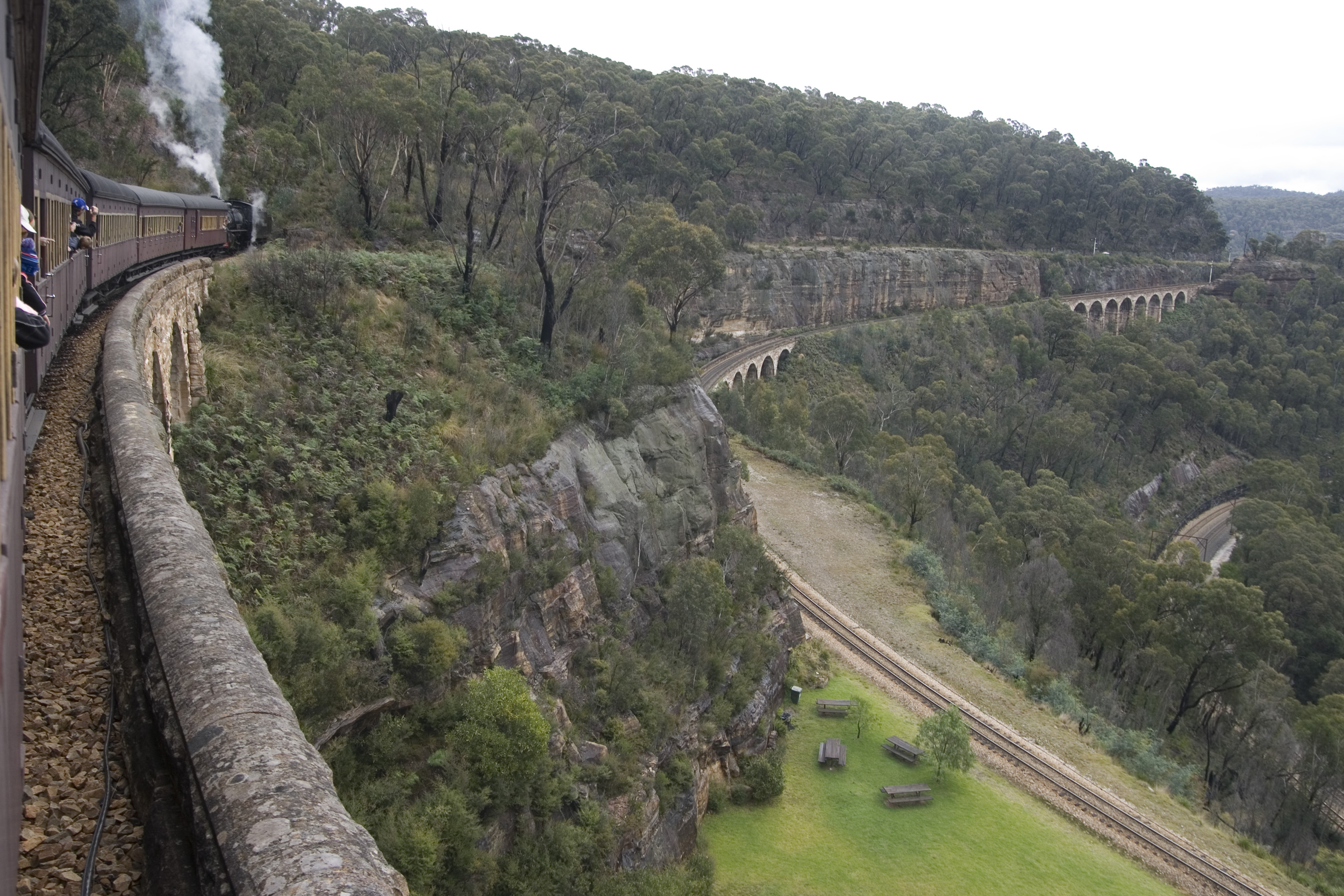 The view from the top viaduct of the Lithgow Zig Zag, now operated as the Zig Zag Railway. The middle viaduct can be seen below; and at the bottom right of the image is the bottom of the Lithgow Zig Zag, now operated as the Main western railway line, located a short distance from Lithgow.